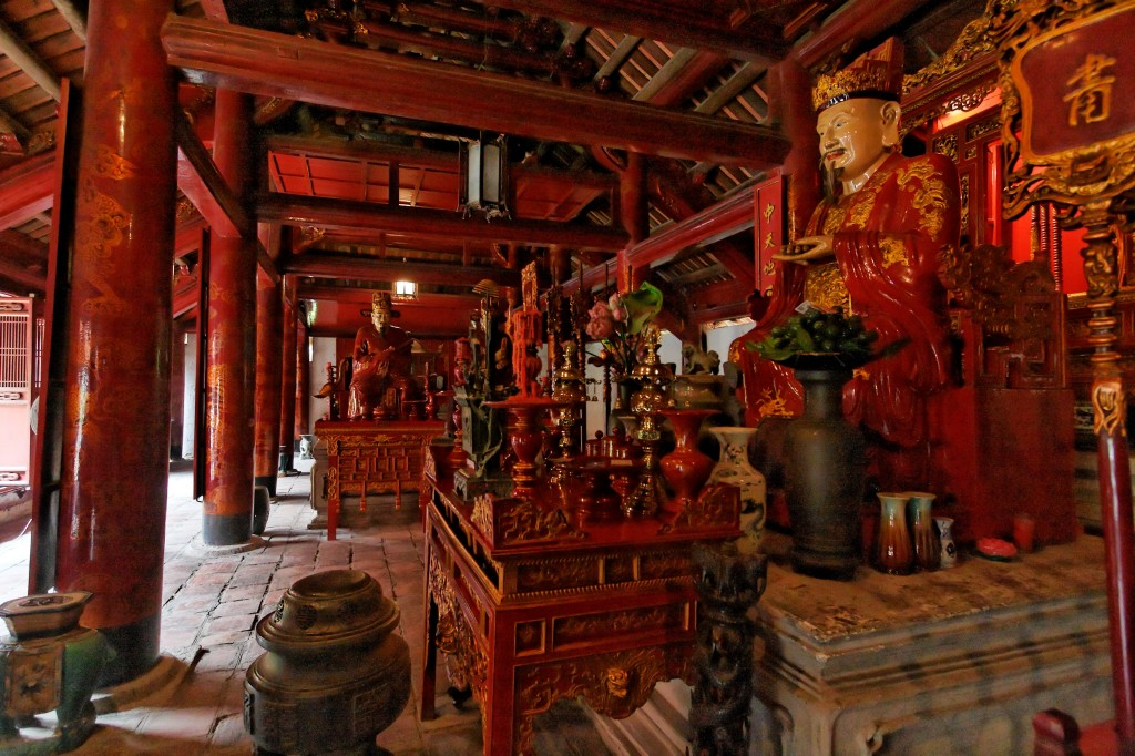 Văn Miếu (Temple of literature), Hanoi, Vietnam Main hall.